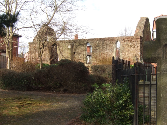 Ruins of St Loye's Chapel, Exeter. Another view is at 1080851